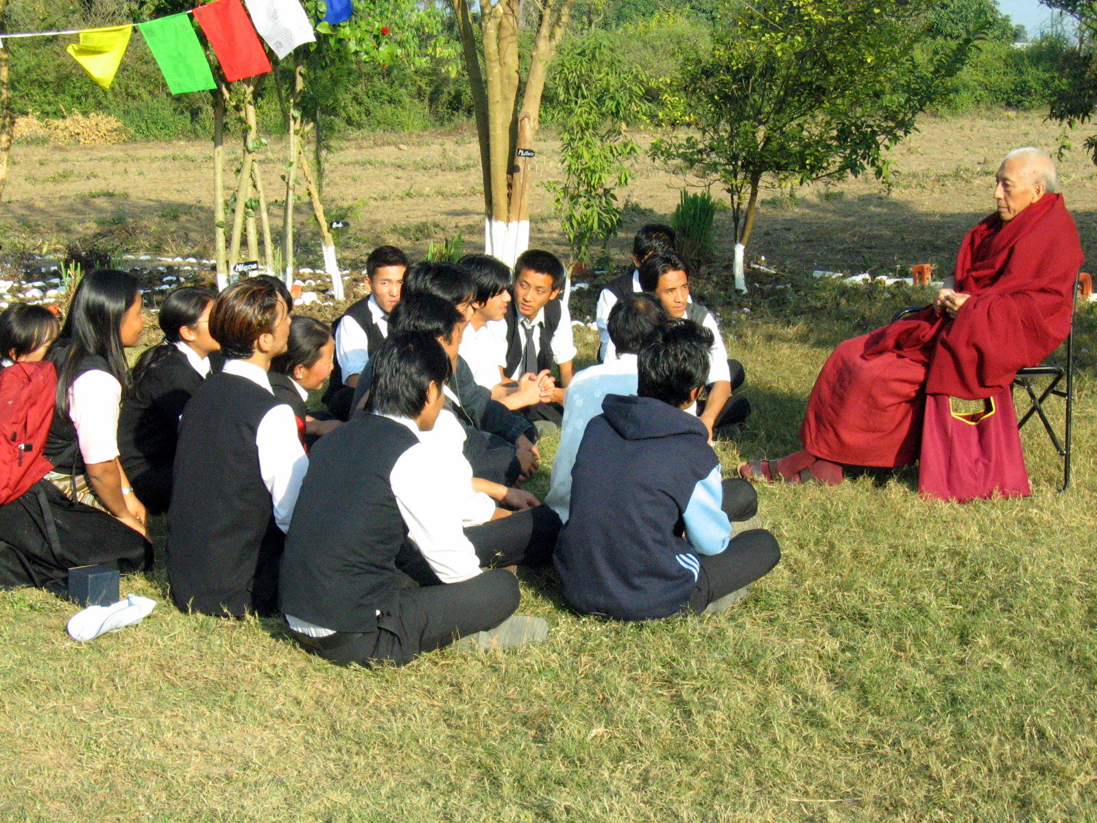 He is the Prime Minister of the Tibetan Gov't in Exile. They are students at a local vocational school